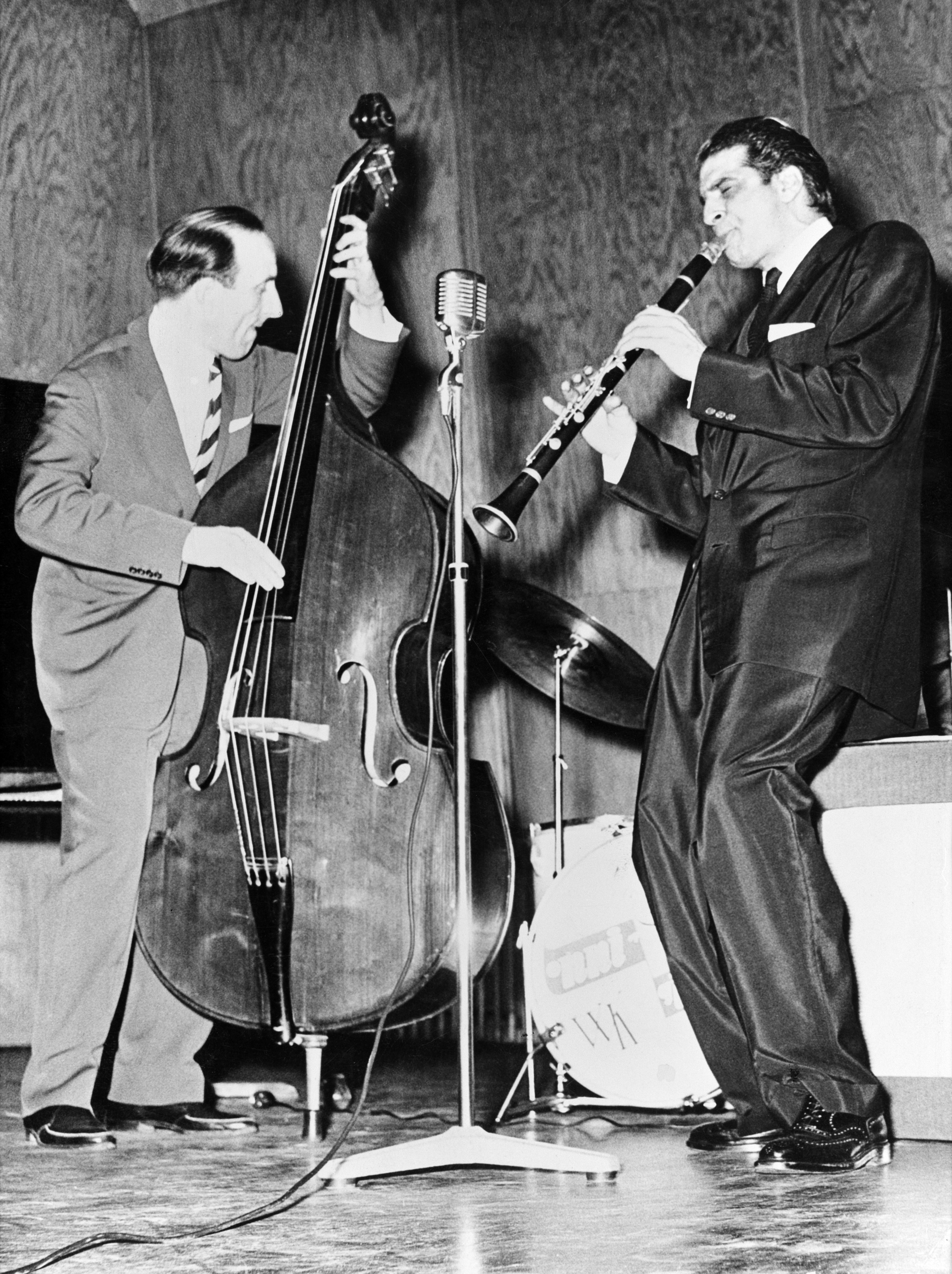 Photograph of the musicians Erik Lindström (1922–2015) and Tony Scott (1921–2007) performing at the main hall of Helsinki School of Economics.